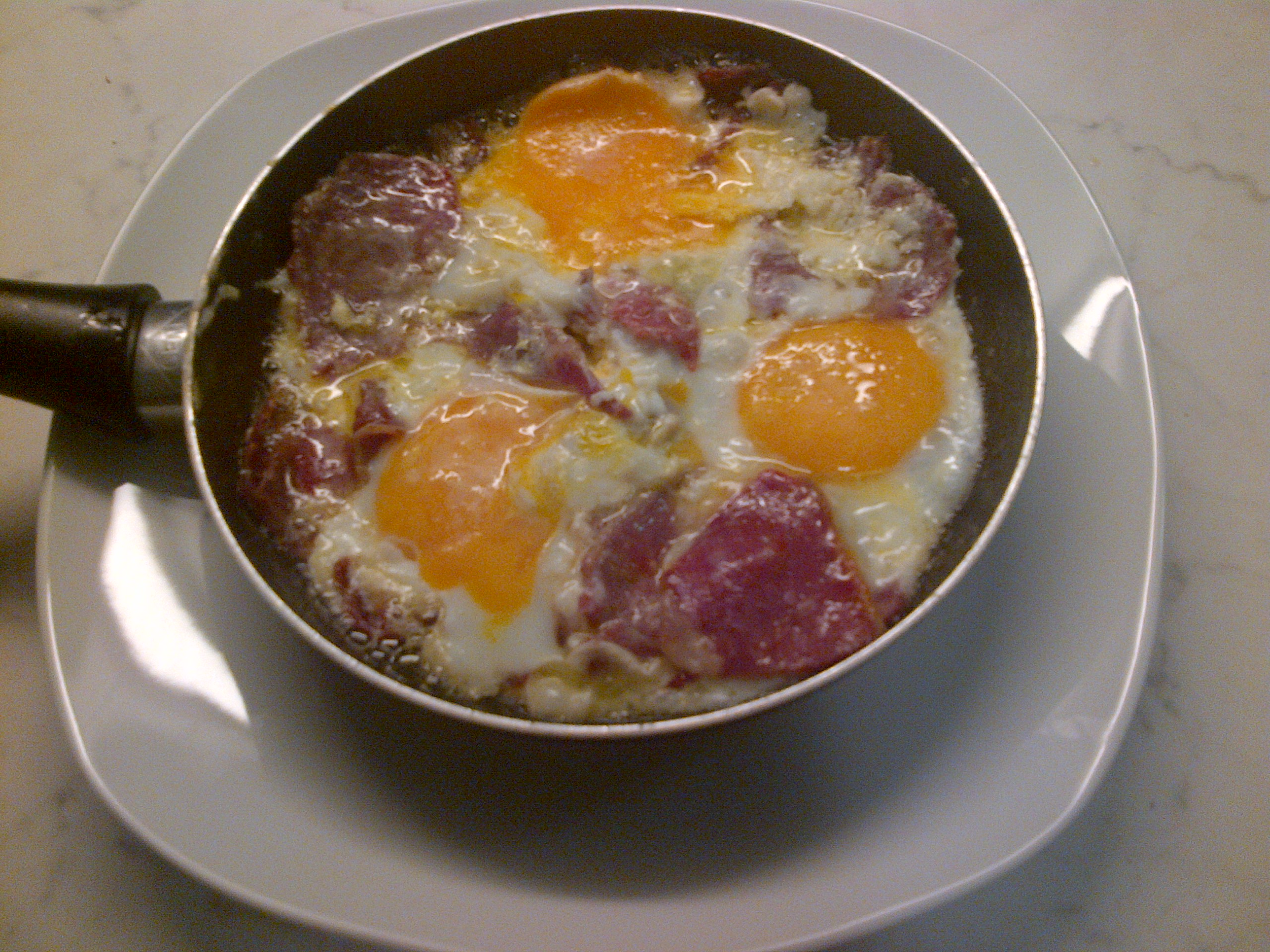 "Pastırmali yumurta" with three eggs